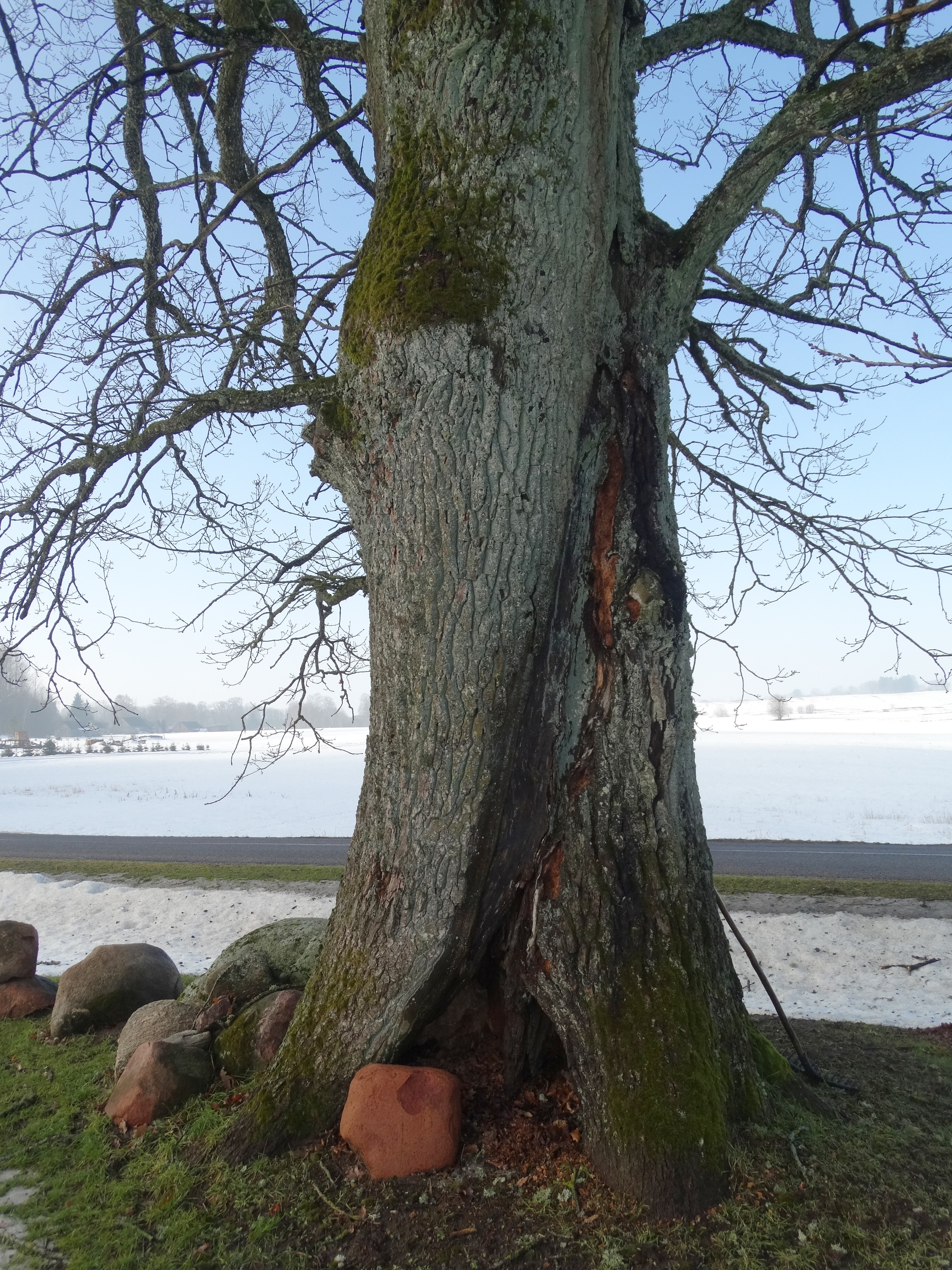 Bijotai oak, Šilalė district, Lithuania